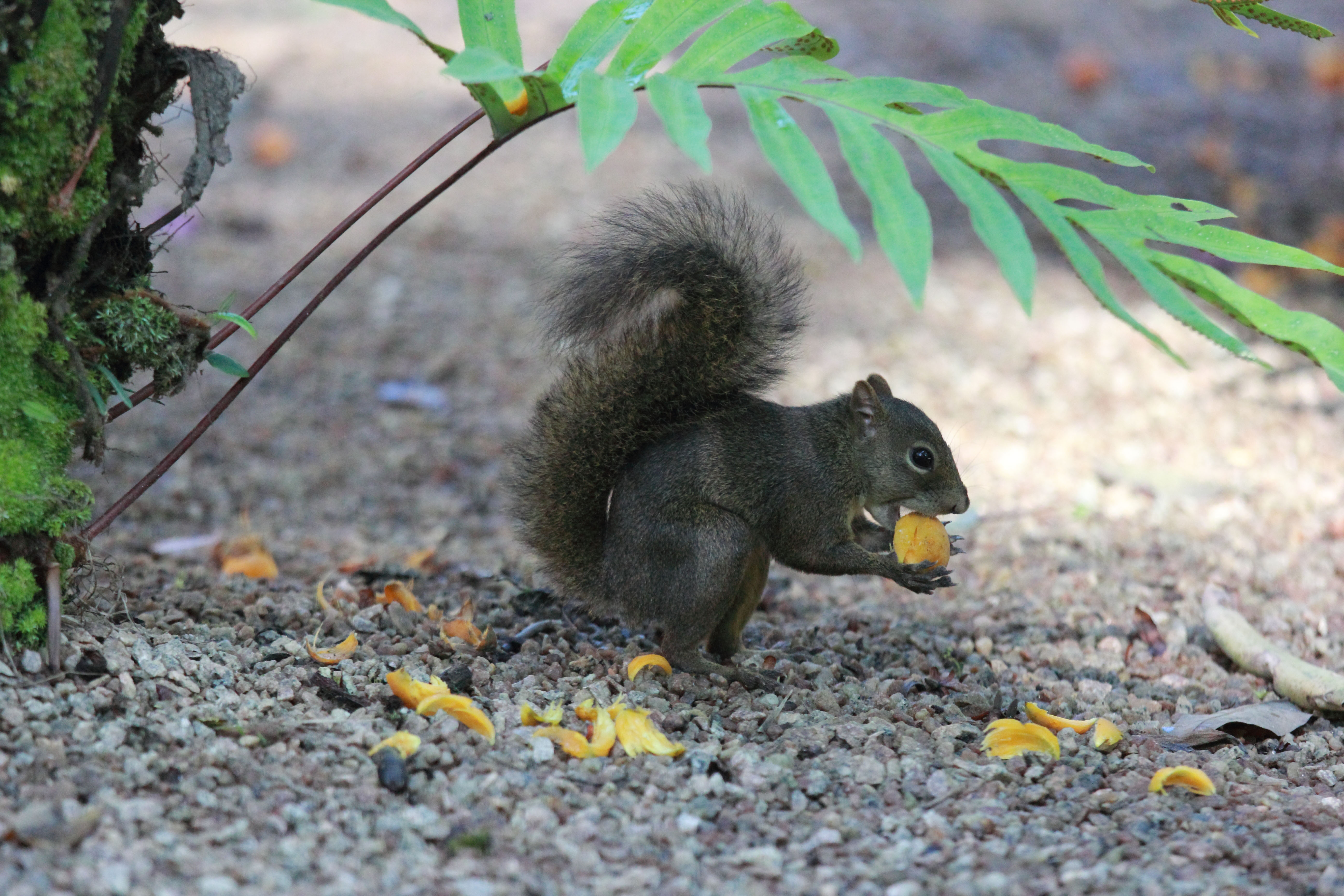 Ingram's squirrel (Sciurus ingrami) feeding in the Rio de Janeiro Botanical Garden